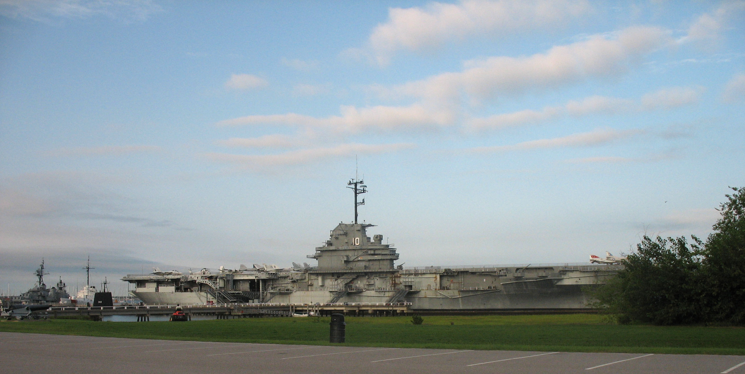 The former U.S. Navy aircraft carrier USS Yorktown (CVS-10) at Patriots Point, Mt. Pleasant on 2 September 2006.